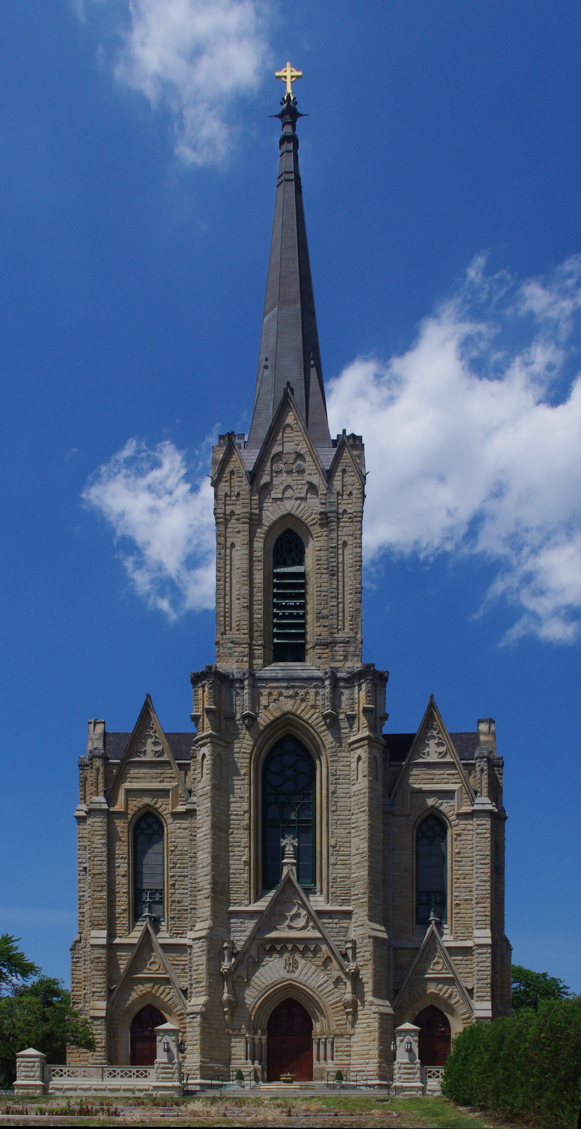 Historic Church of Saint Patrick (Toledo, OH) - exterior